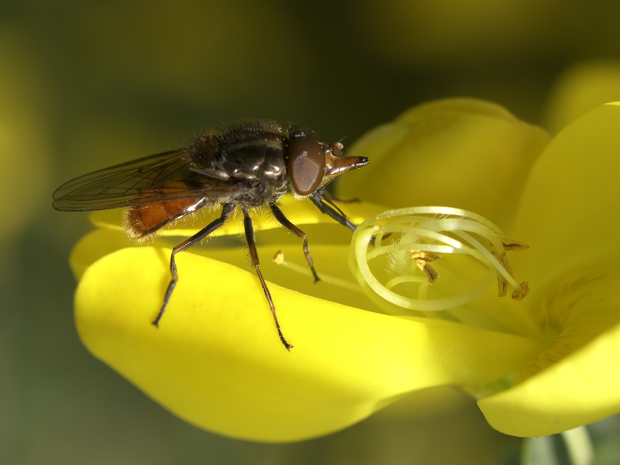 Heineken fly, Syrphidae on Broom at Schobbejakshoogte, Brugge - Belgium.